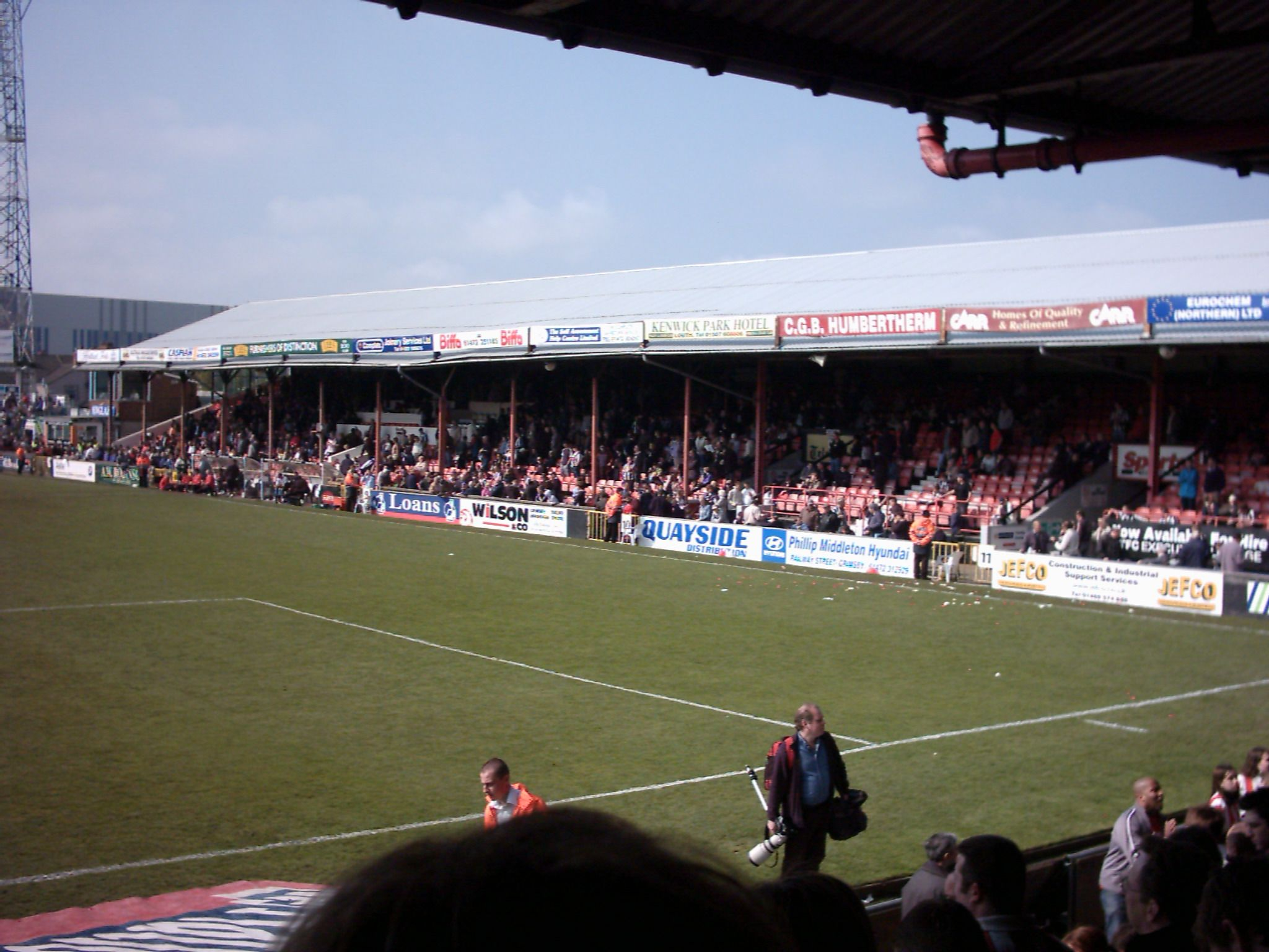 Taken by user:superbfc on 2004-05-01 with TCM 3.2 MPix camera